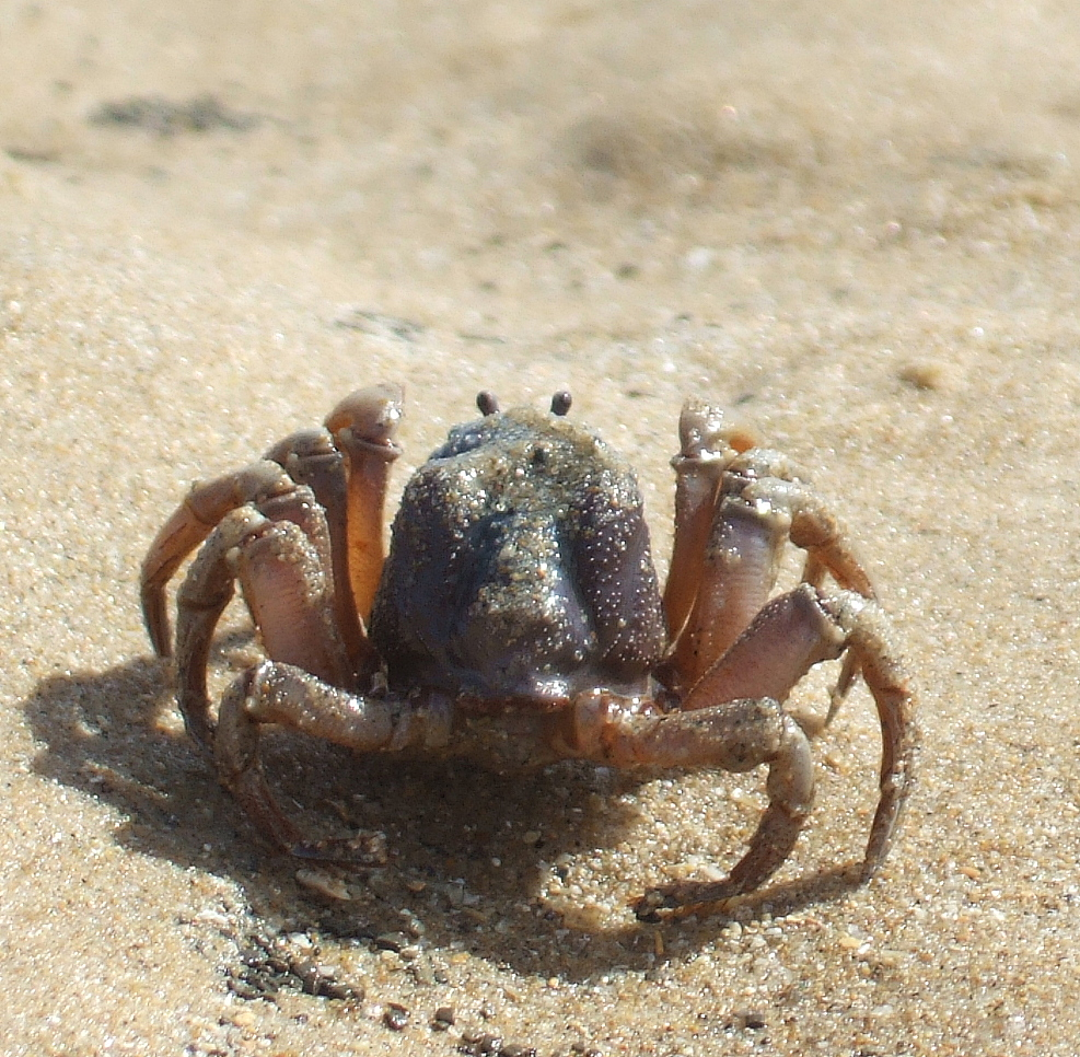 A crab found in Croajingolong National Park. Someone told me it was a "soldier crab".